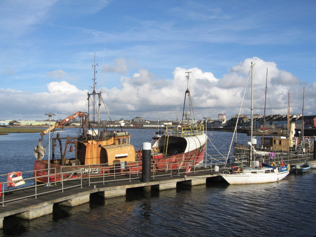 Irvine Harbour The red-hulled boat is the Antares, a fishing vessel that was dragged under when the nets were caught by a submarine in the Firth of Clyde, with the loss of all on board.